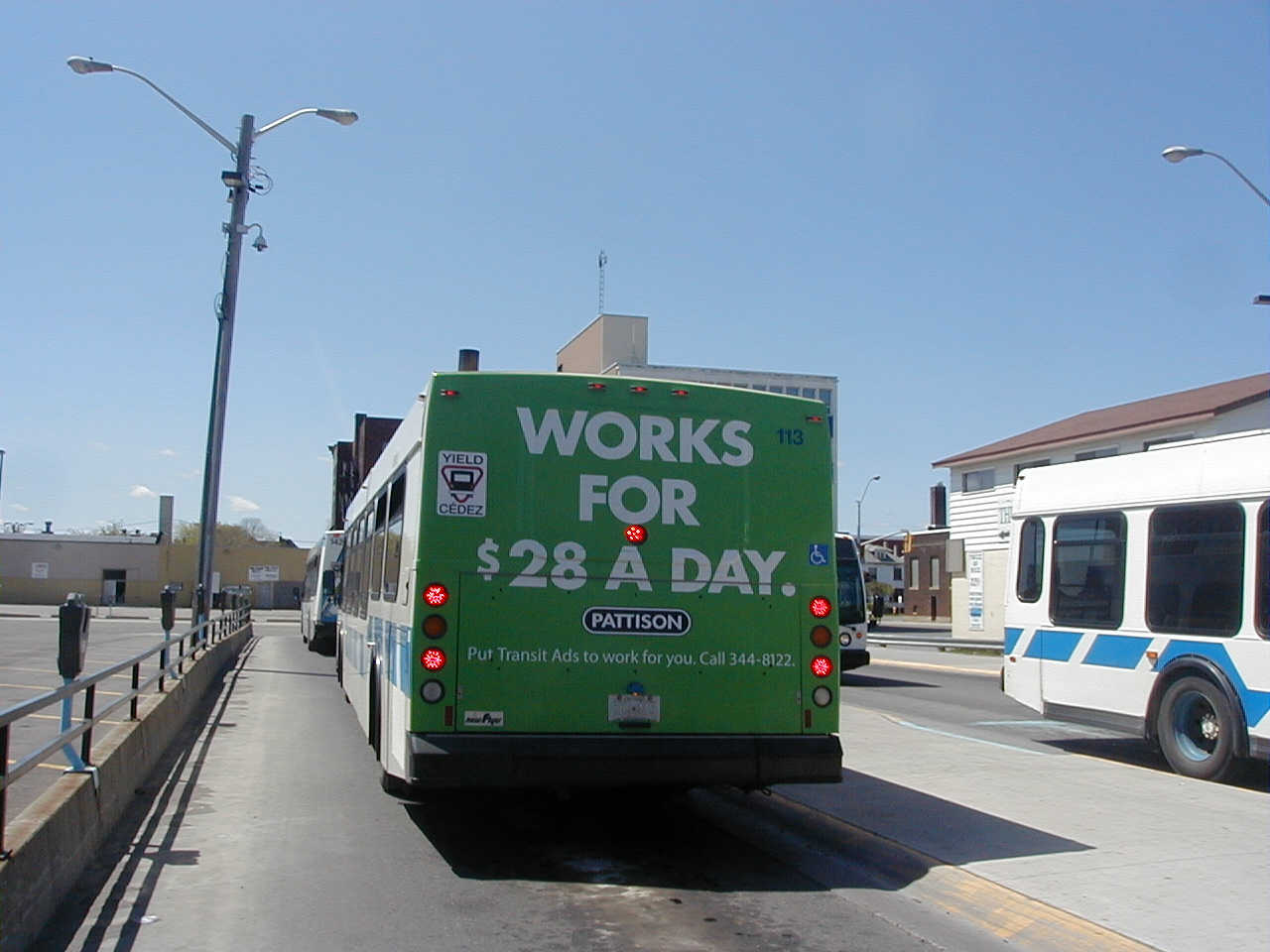 113 (1 Mainline-Westfort)